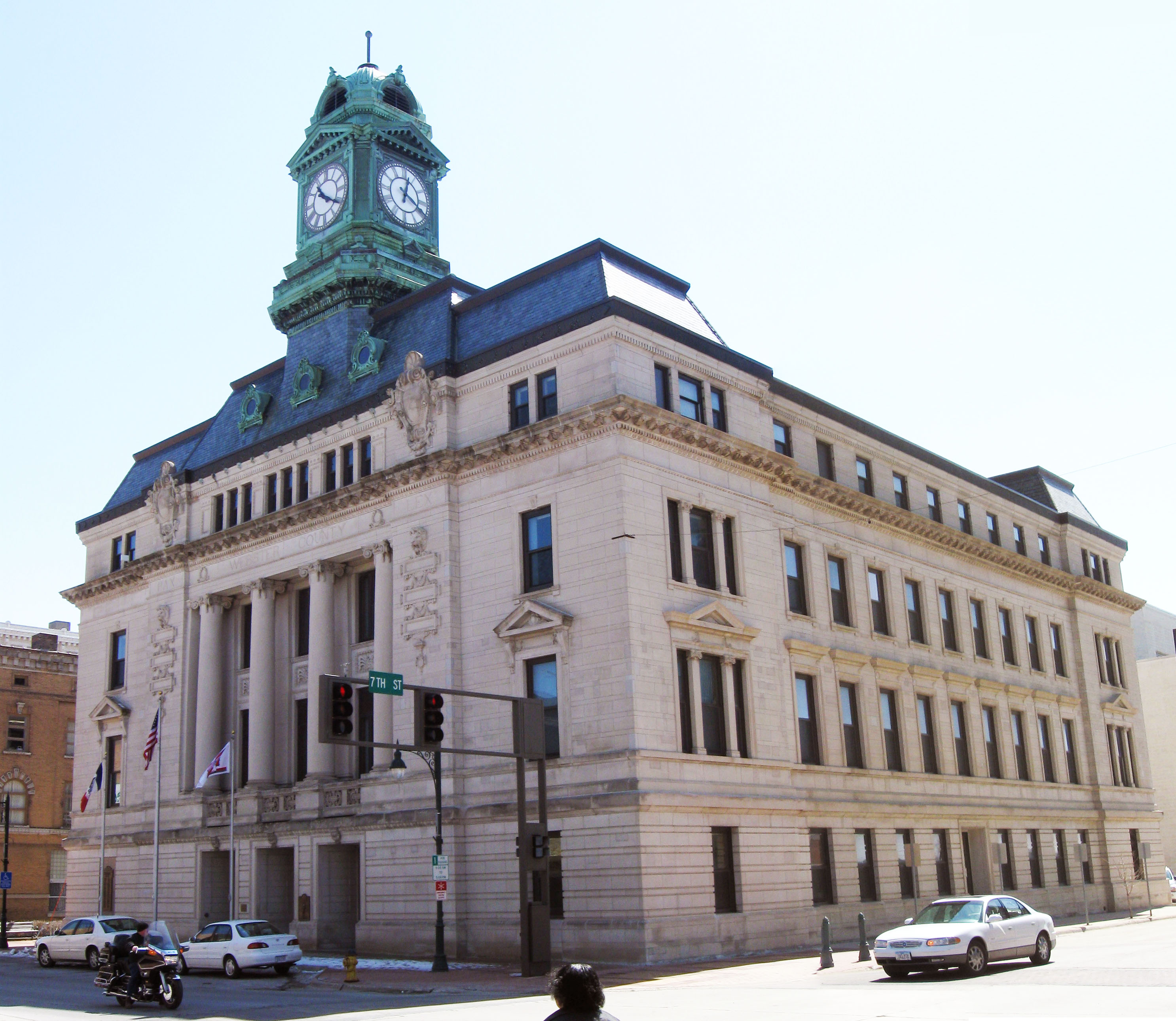 Webster County, Iowa Courthouse in Fort Dodge, stitched from two different photos